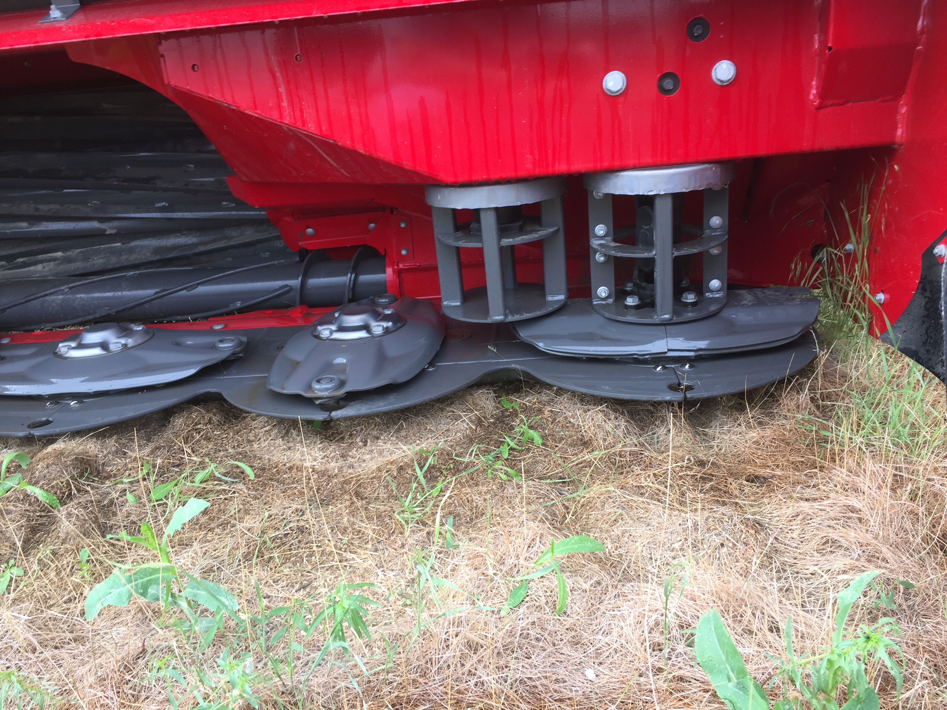 Closeup of Razorbar disc header showing crimper rollers and cutter heads